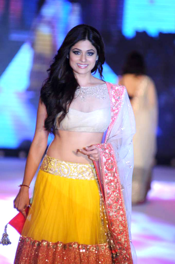 Shamita Shetty walks for Manish Malhotra & Shaina NC's show for CPAA